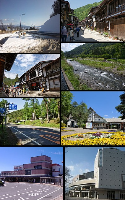 Shiojiri montage